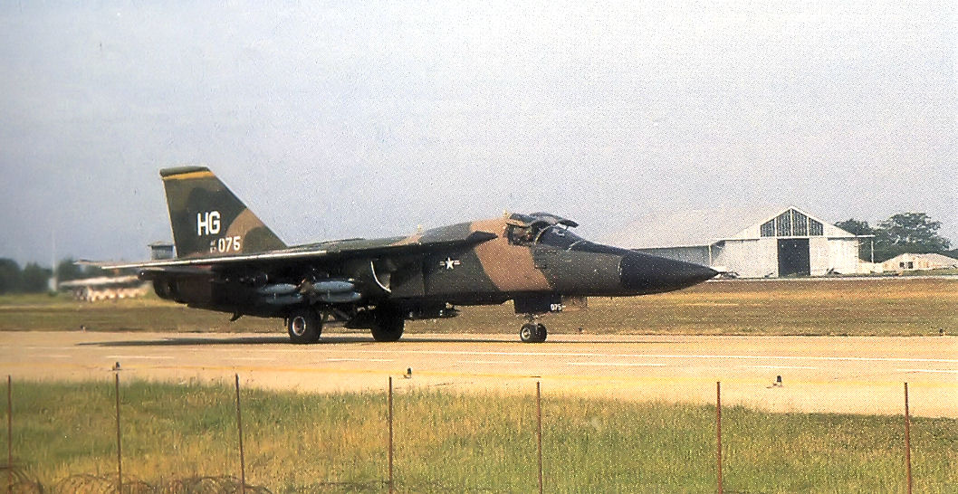 428th Tactical Fighter Squadron General Dynamics F-111A 67-0075 taxiing at Korat RTAFB, Thailand in Spetember 1974. Note the blue practice bombs being carried. Aircraft was retired to AMARC as FV0112 Jul 15, 1992. Still on AMARC inventory Jan 15, 2008